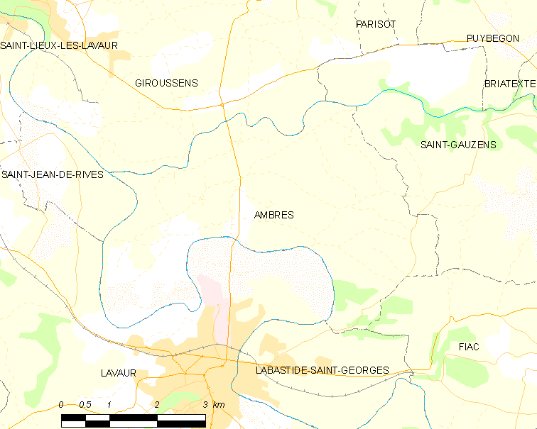 Map of French municipality Ambres